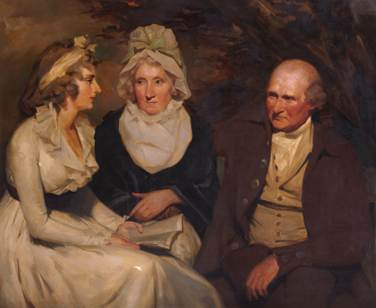 John Johnstone (28 April 1734 – 10 December 1795) was a Scottish nabob,[2] a corrupt official of the British East India Company who returned home with great wealth.